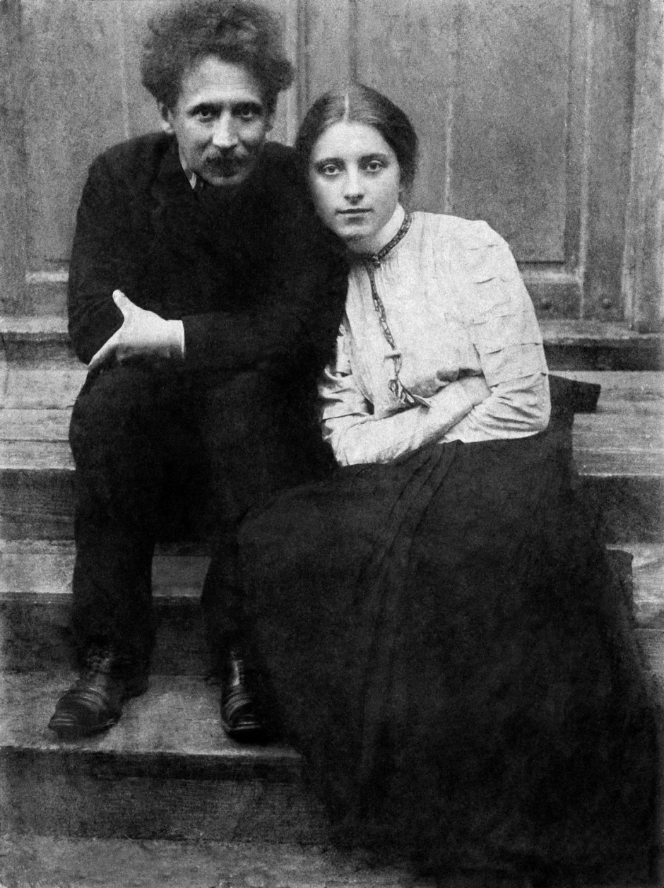 Mikalojus Konstantinas Čiurlionis (1875 09 22–1911 04 10) and Sofija Kymantaitė-Čiurlionienė (1886 03 13–1958 12 01) in 1908